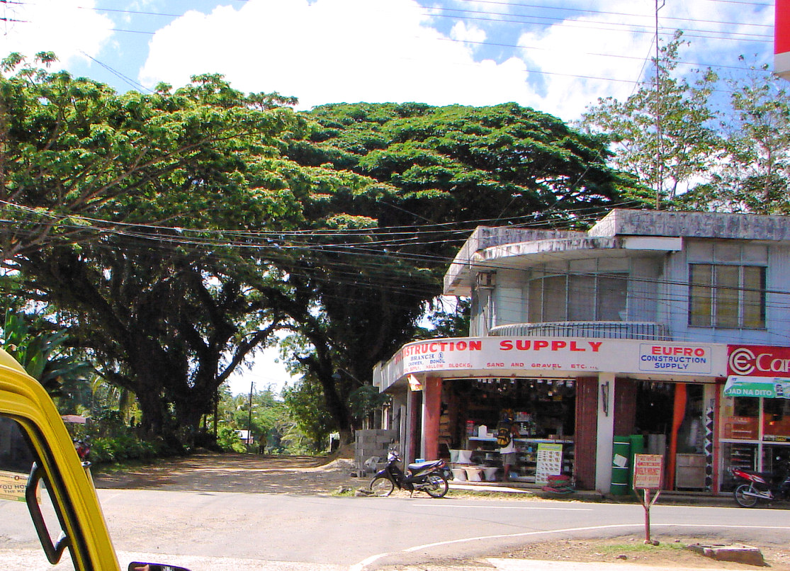 Carmen, Bohol, Philippines